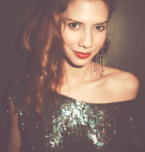 Michele Waagaard